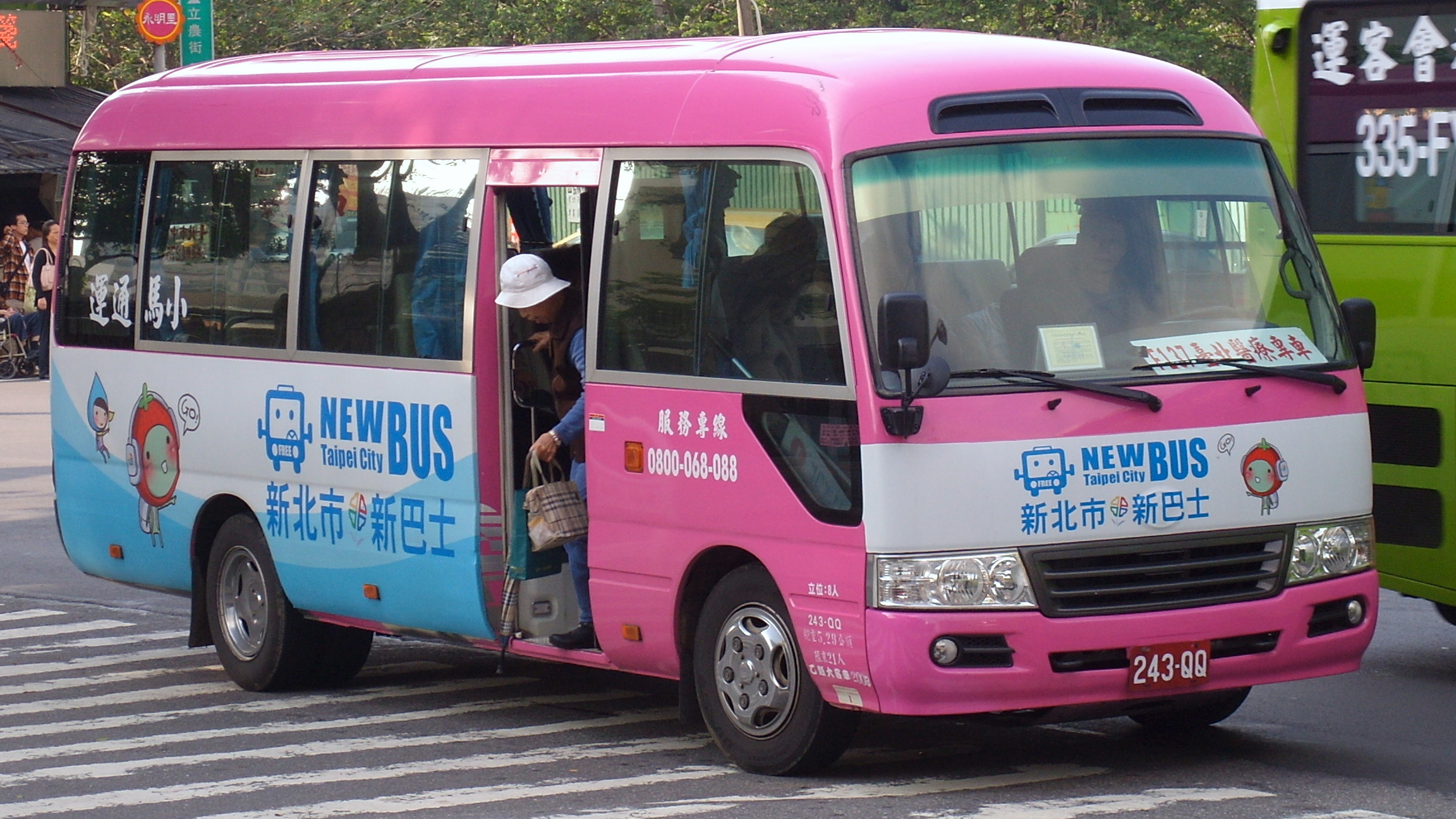 NTPC New Taipei New Bus - F137 by Pony Transport.中文（台灣）: 小馬通運的新北市新巴士F137路。